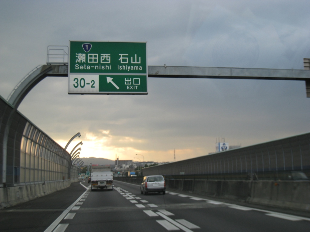 Exit sign of Seta-nishi Interchange